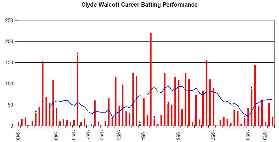 This graph details the Test Match performance of Clyde Walcott. It was created by Raven4x4x. The red bars indicate the player's test match innings, while the blue line shows the average of the ten most recent innings at that point. Note that this average cannot be calculated for the first nine innings. The blue dots indicate innings in which Walcott finished not-out. This graph was generated with Microsoft Excel 2002, using data from Cricinfo and .au.